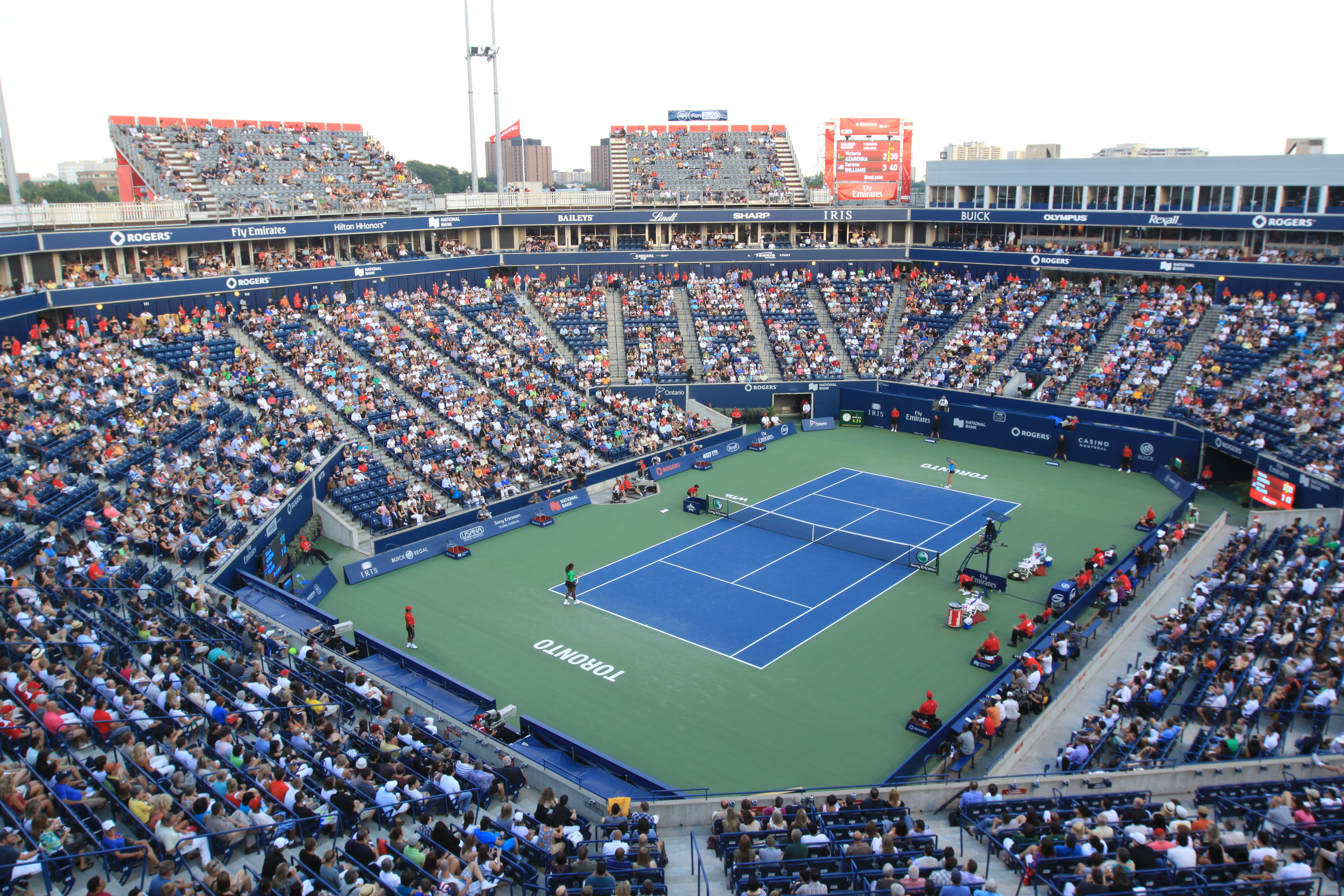 Rogers Cup 2011 Second Semifinal Serena Williams vs Victoria Azarenka